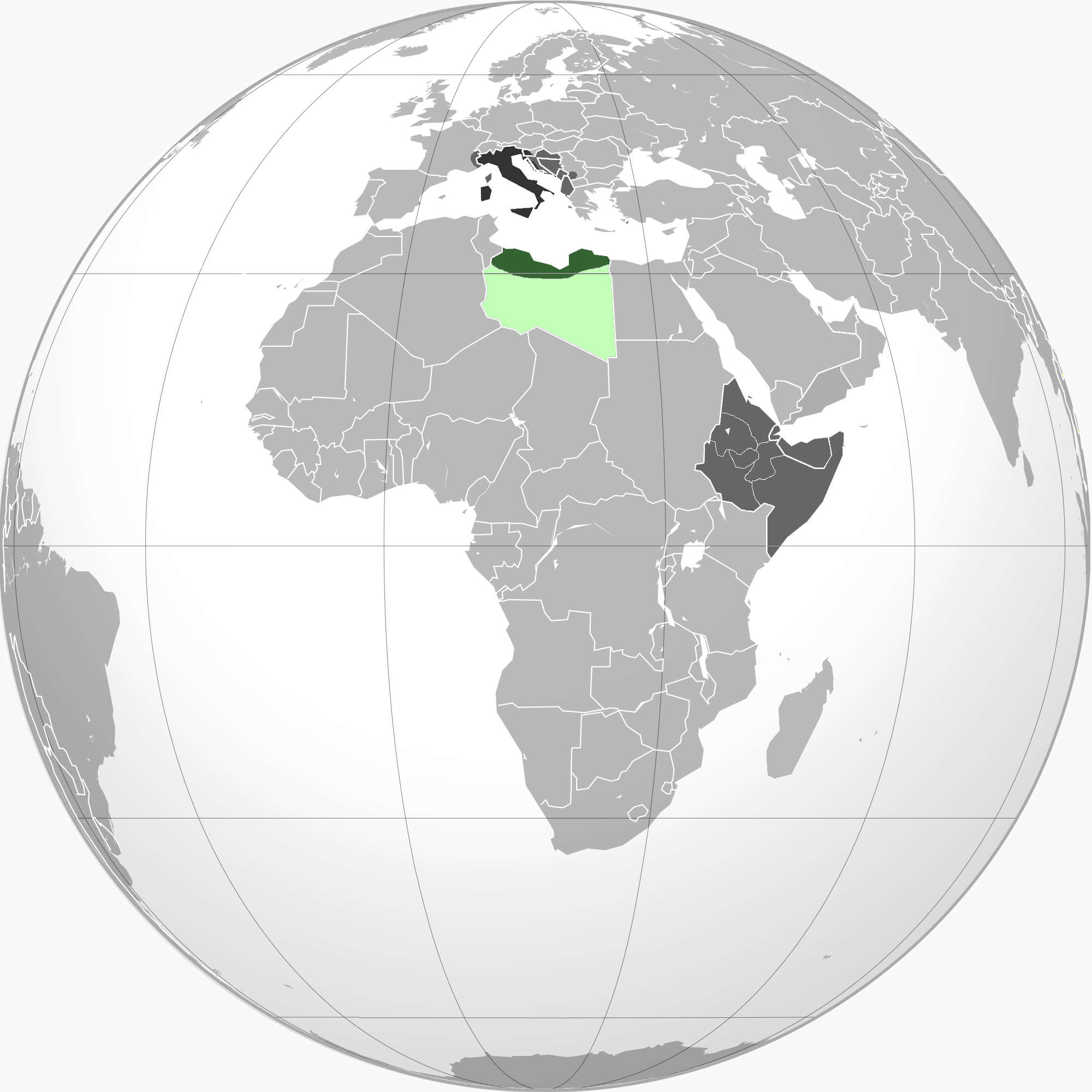 Green: Italian LibyaDark gray: Other Italian possessions and occupied territory (Africa Italiana)Darkest gray: Fascist Kingdom of Italy